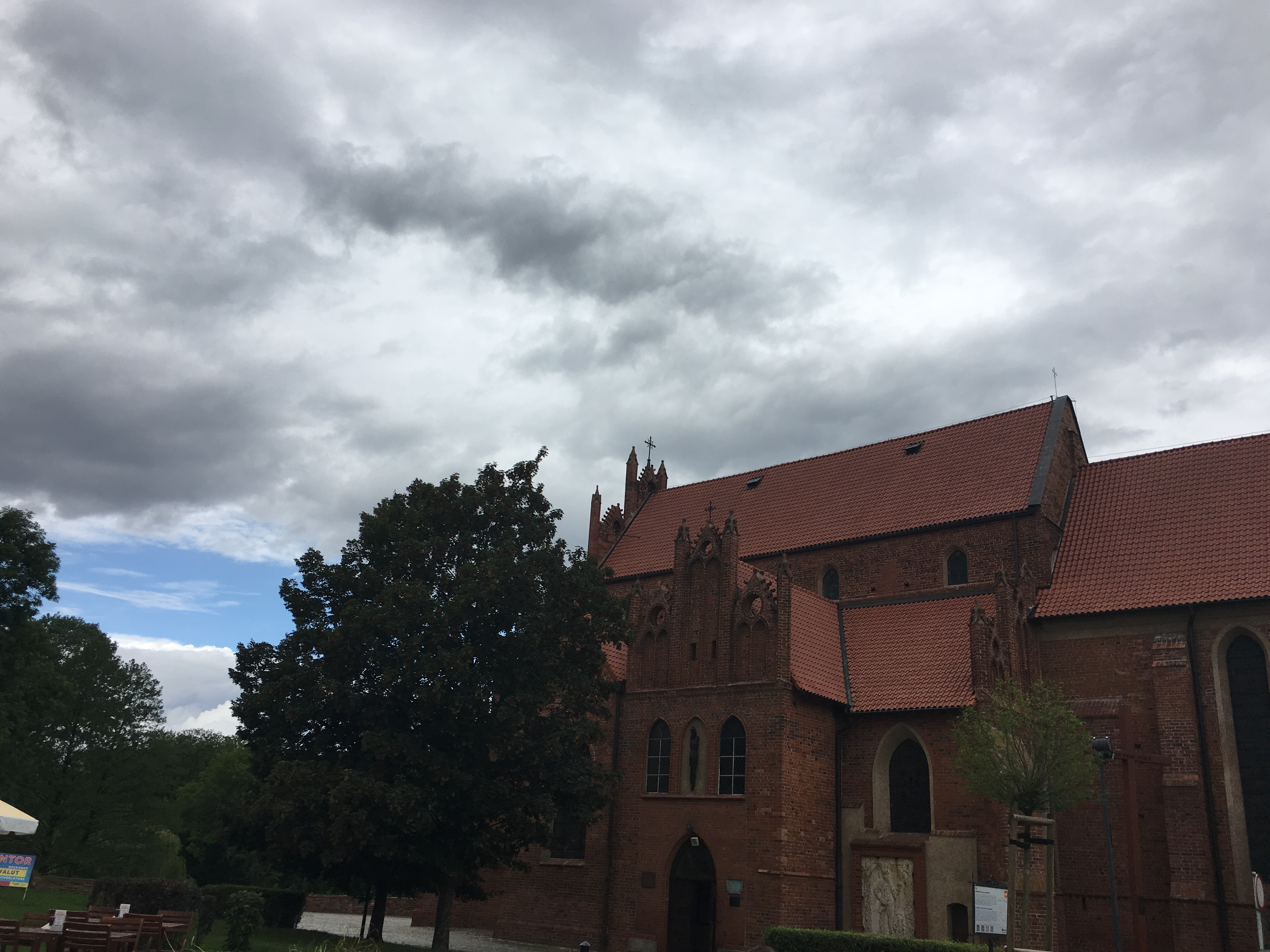 Church of Saint Matthew in Starogard Gdański